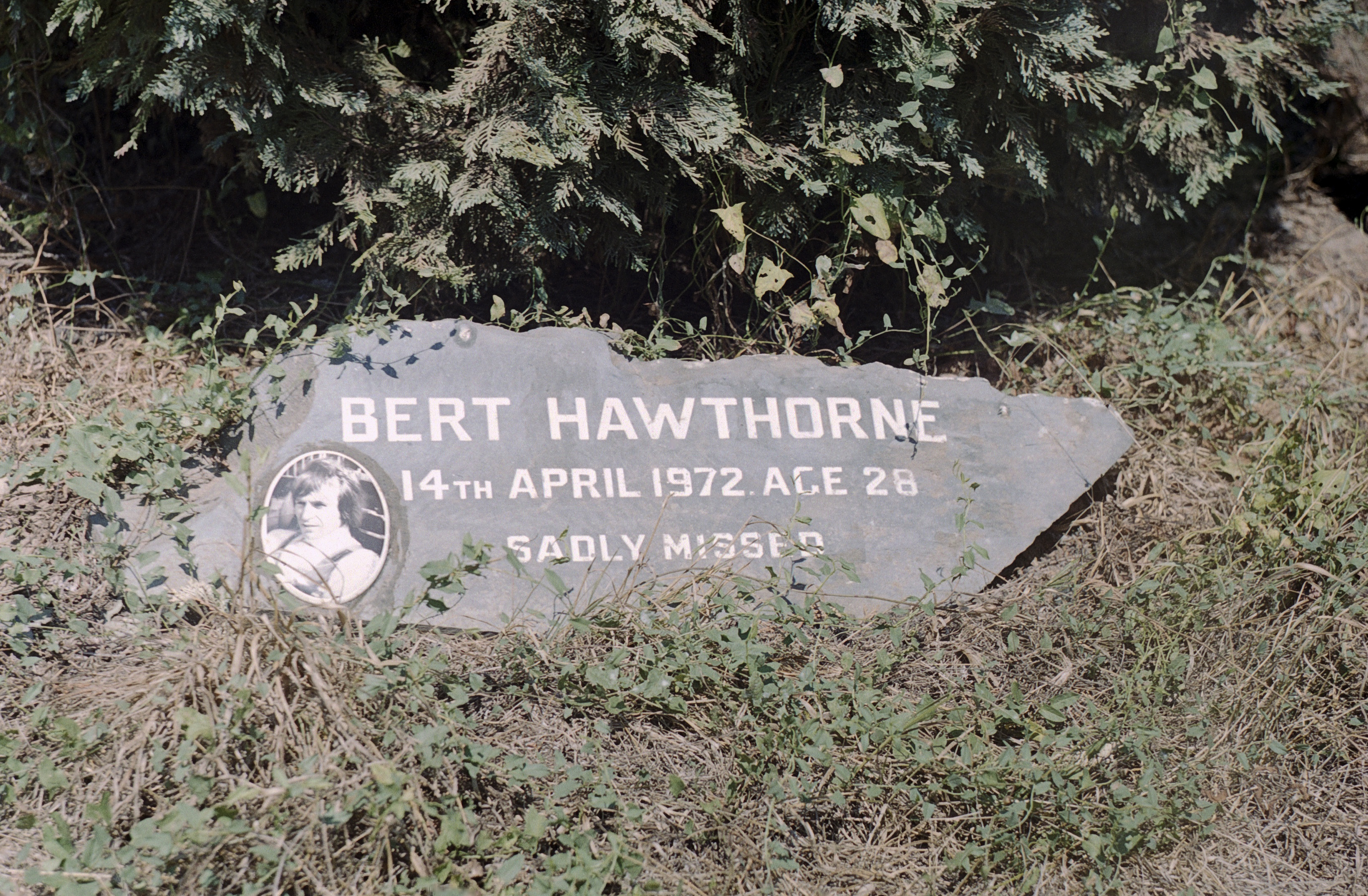 A memorial sign on the place of death of Berth Hawthorne, close to the memorial cross of Jim Clark. Now it is far away from the regular circuit and since then it well may be that the forest has grown around.